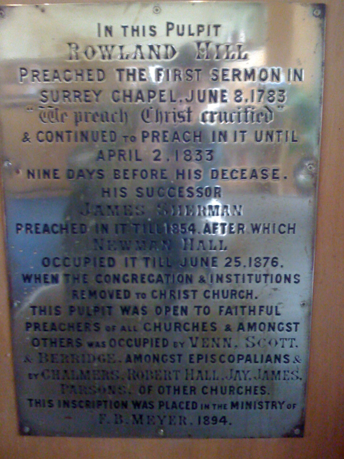 Plaque from pulpit of Rowland Hill and James Sherman, Christ Church and Upton Chapel